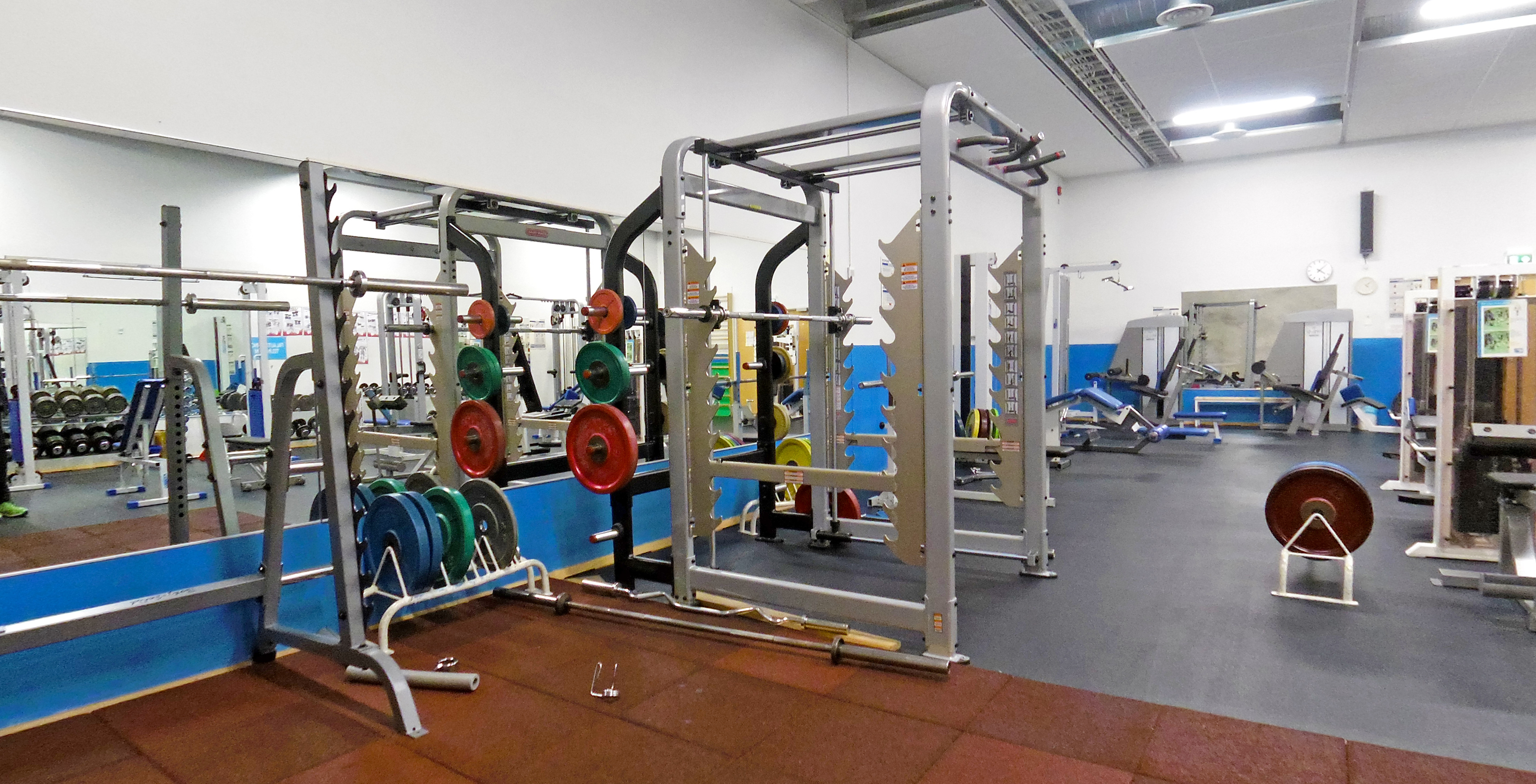 A gym in Kuokkala Graniitti in Jyväskylä.